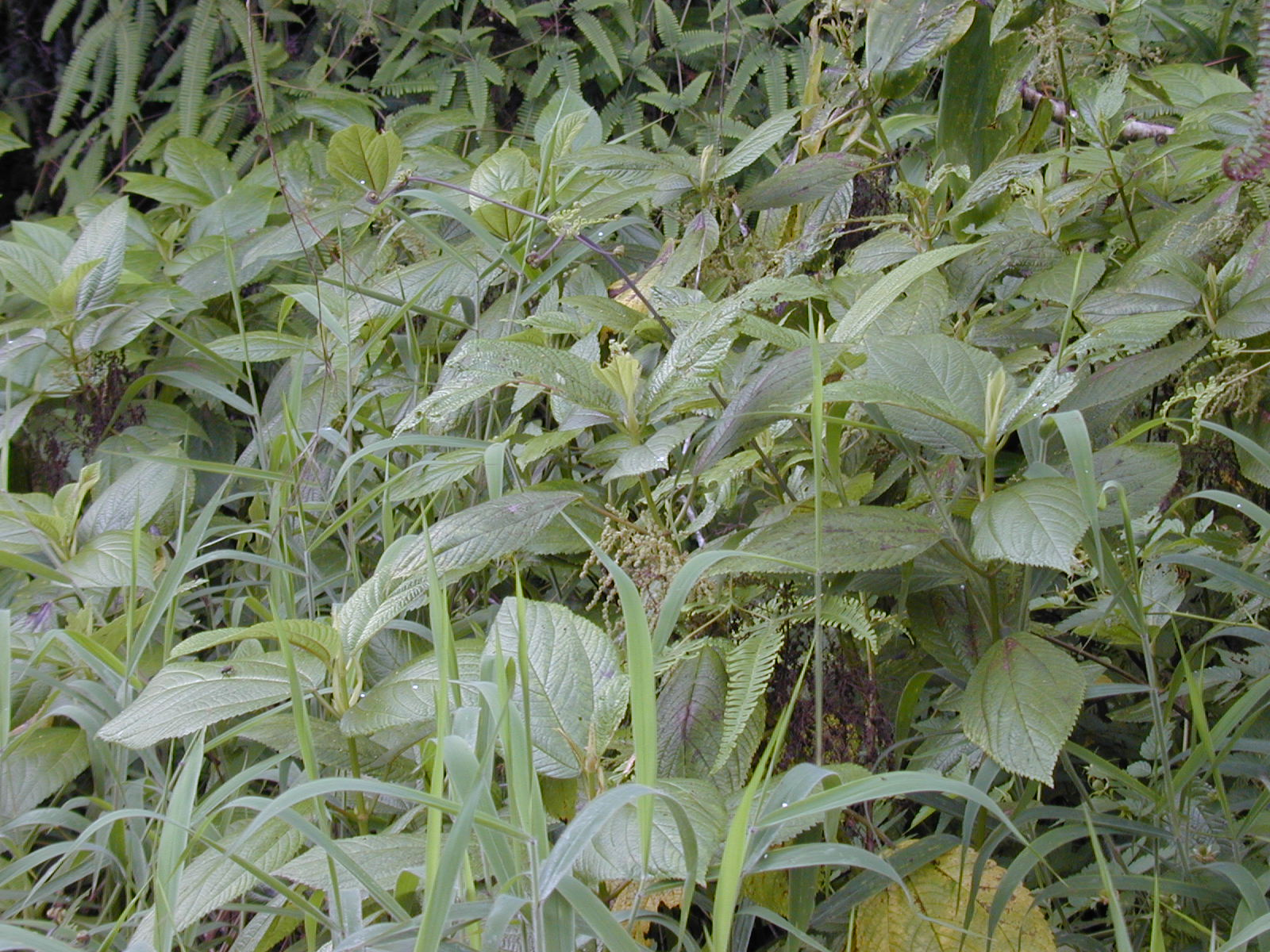 Boehmeria grandis (habit). Location: Maui, Waihee Ridge Trail